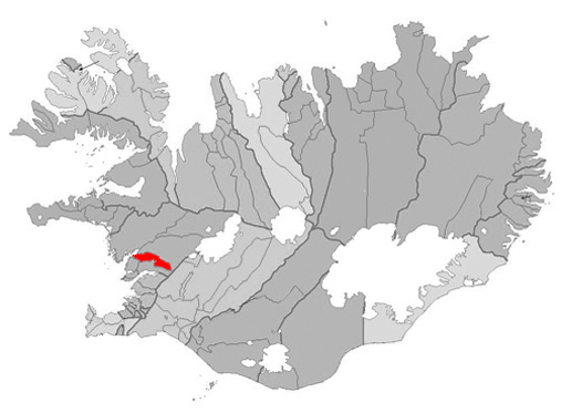 Based on Municipalities of Iceland.png.